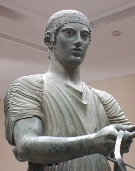 The Charioteer of Delphi